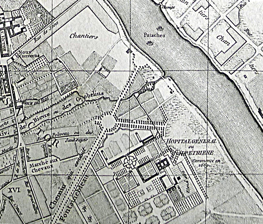 Vaugondy's map of Paris (Salpétrière) - 1760